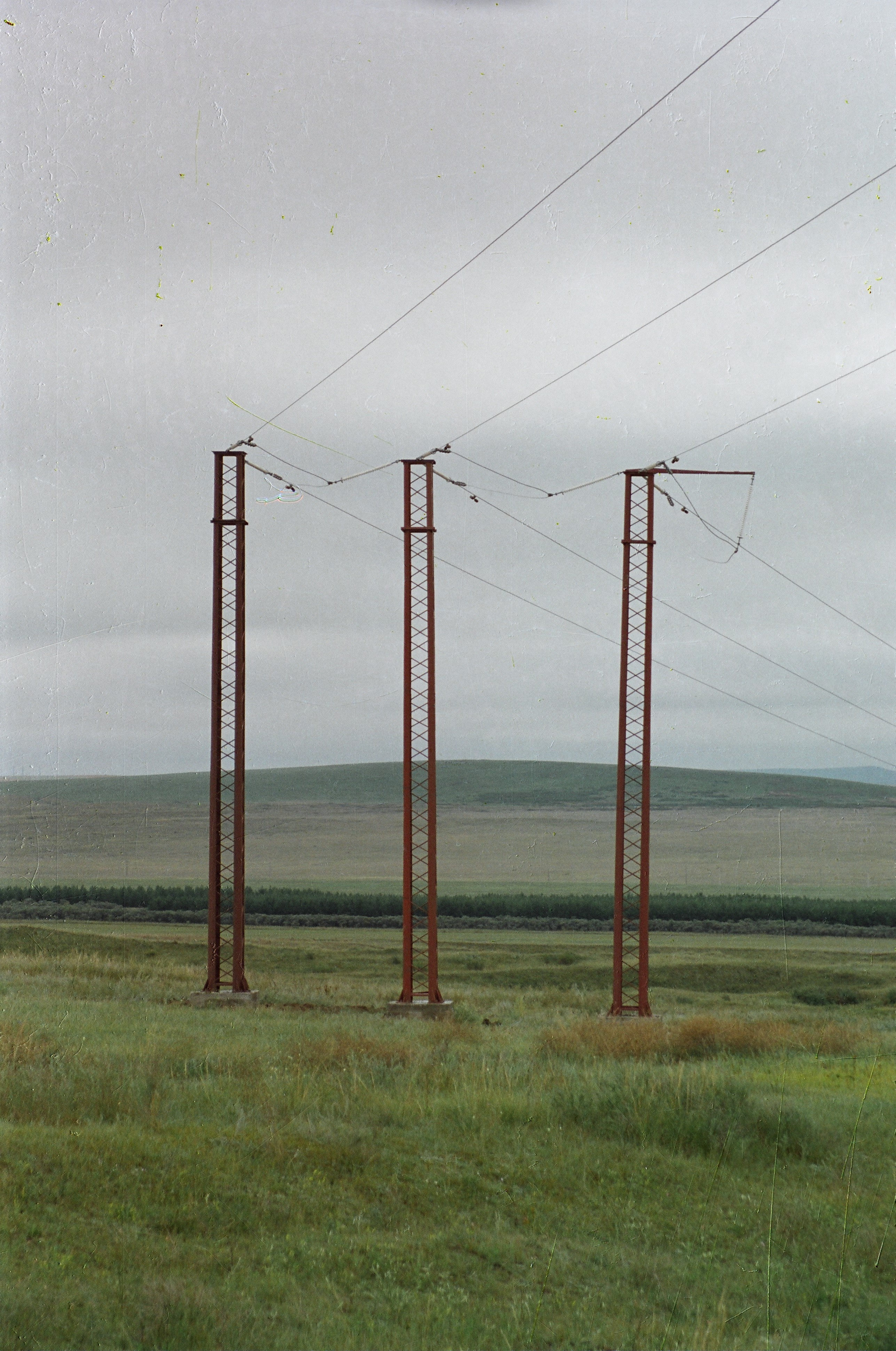 Angle dead-end structures for a single-circuit 35 kV power line in Russia (pylon design by ELSI)